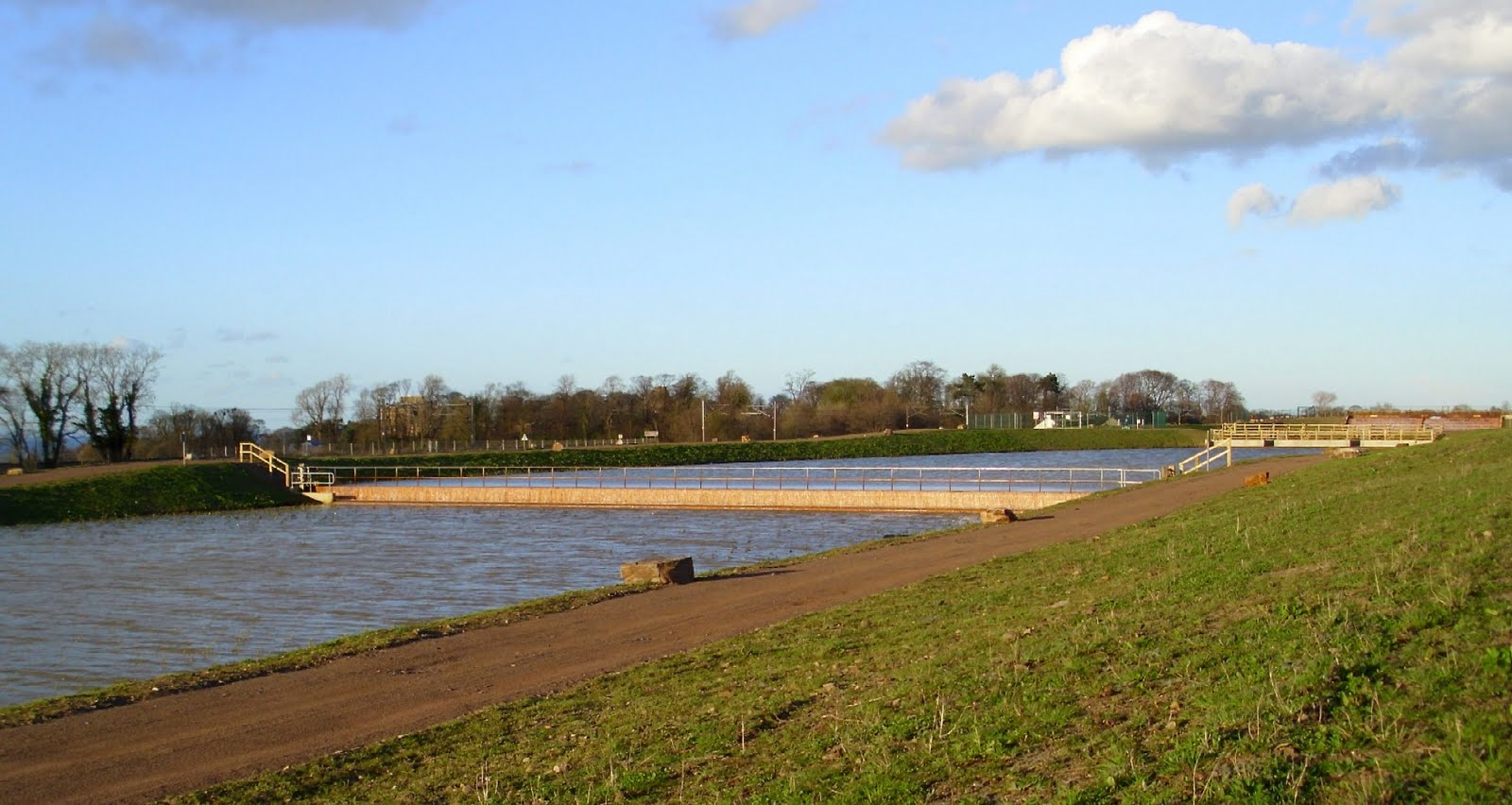 The Minewater Treatment Scheme at Blindwells, soon after it was first established and before the reedbeds had developed, view to NE (photo dated 3 April 2011)